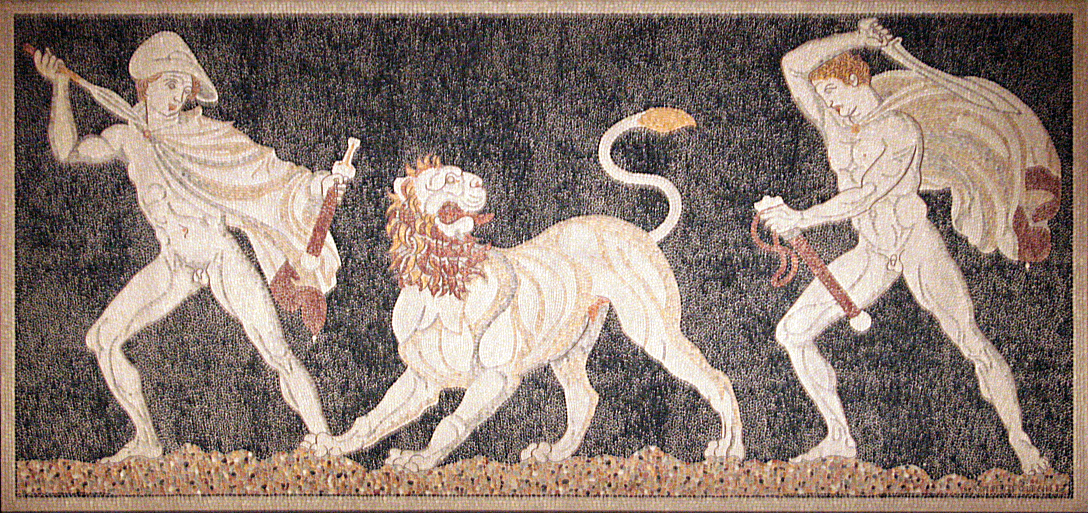 Pebble mosaic known as "lion hunting" made in Greece in the 4th century BC, kept in the archaeological museum of Pella (Greece) and photographed in 2011 during the temporary exhibition "In the kingdom of Alexander the Great" at the Louvre in Paris (France).